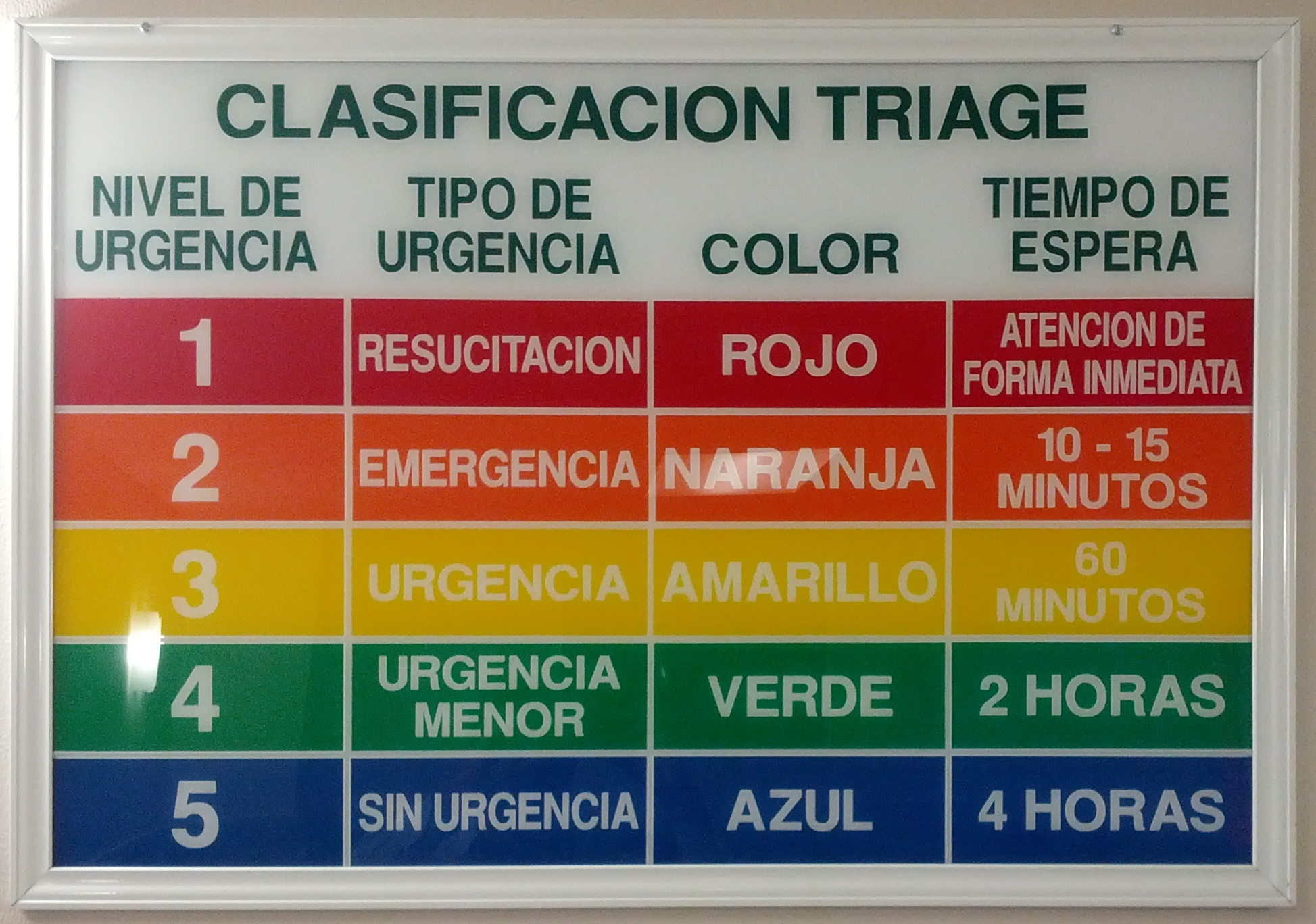 A triage sign at a Mexican emergency room.